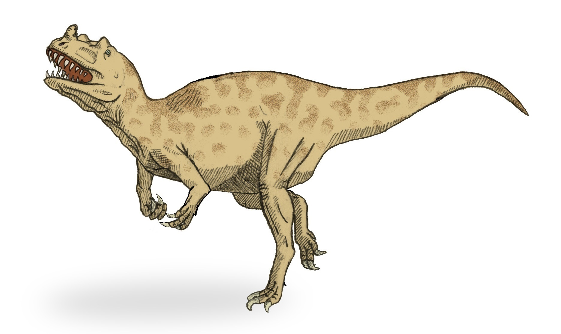 image by me user debivort, 12.06